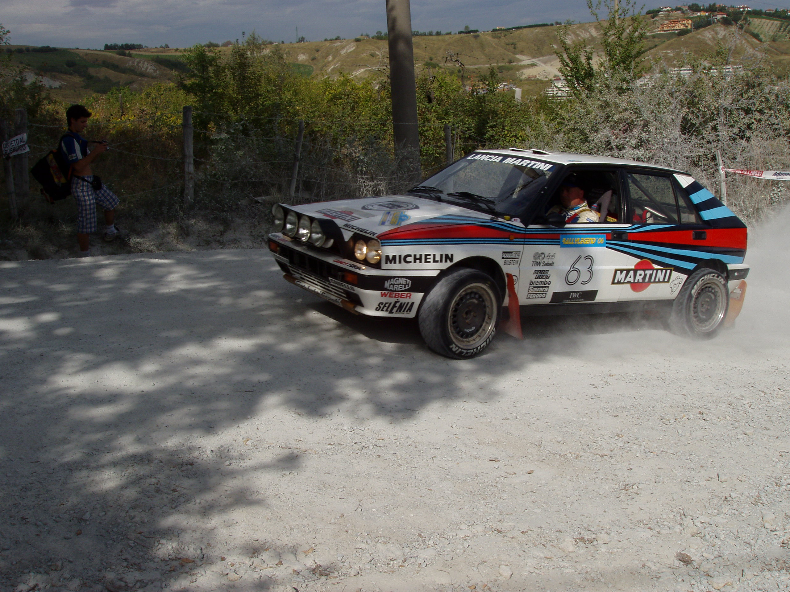 San Marino, October 6–7, 2006. A 1988–89 Lancia Delta HF Integrale "8v" at 2006 Rally Legend.